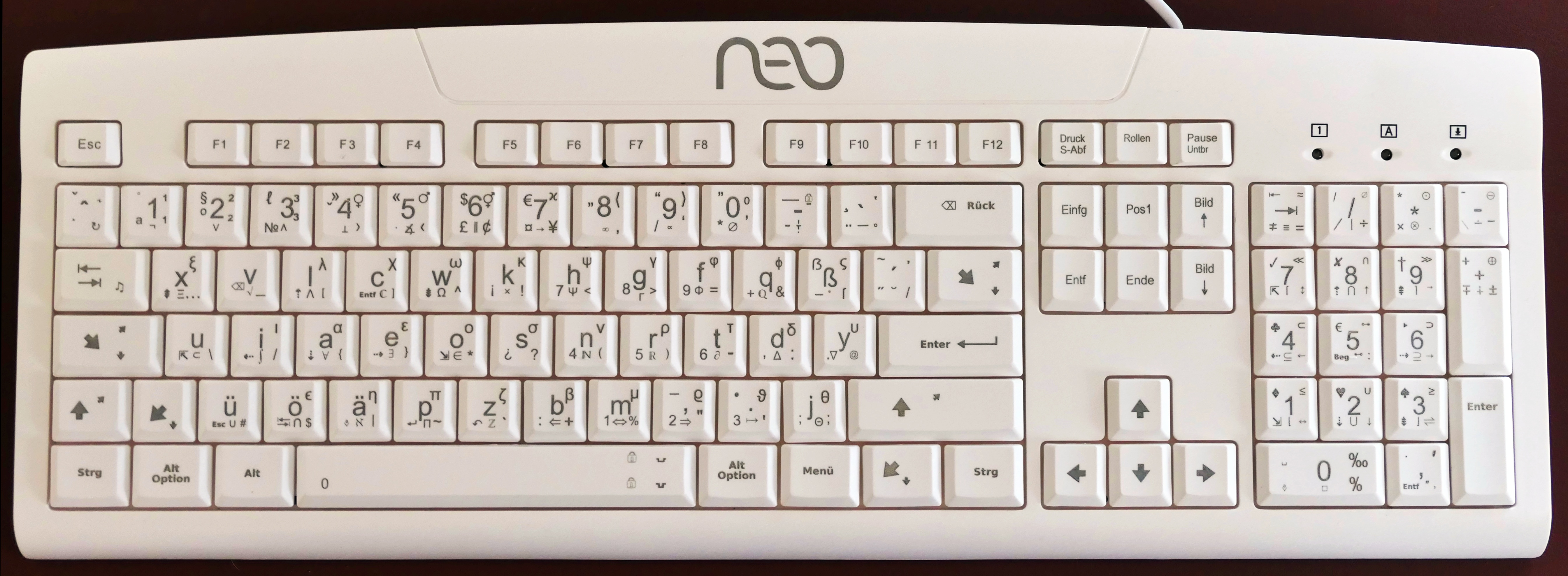 Computer keyboard with NEO layout, commercially produced 2017